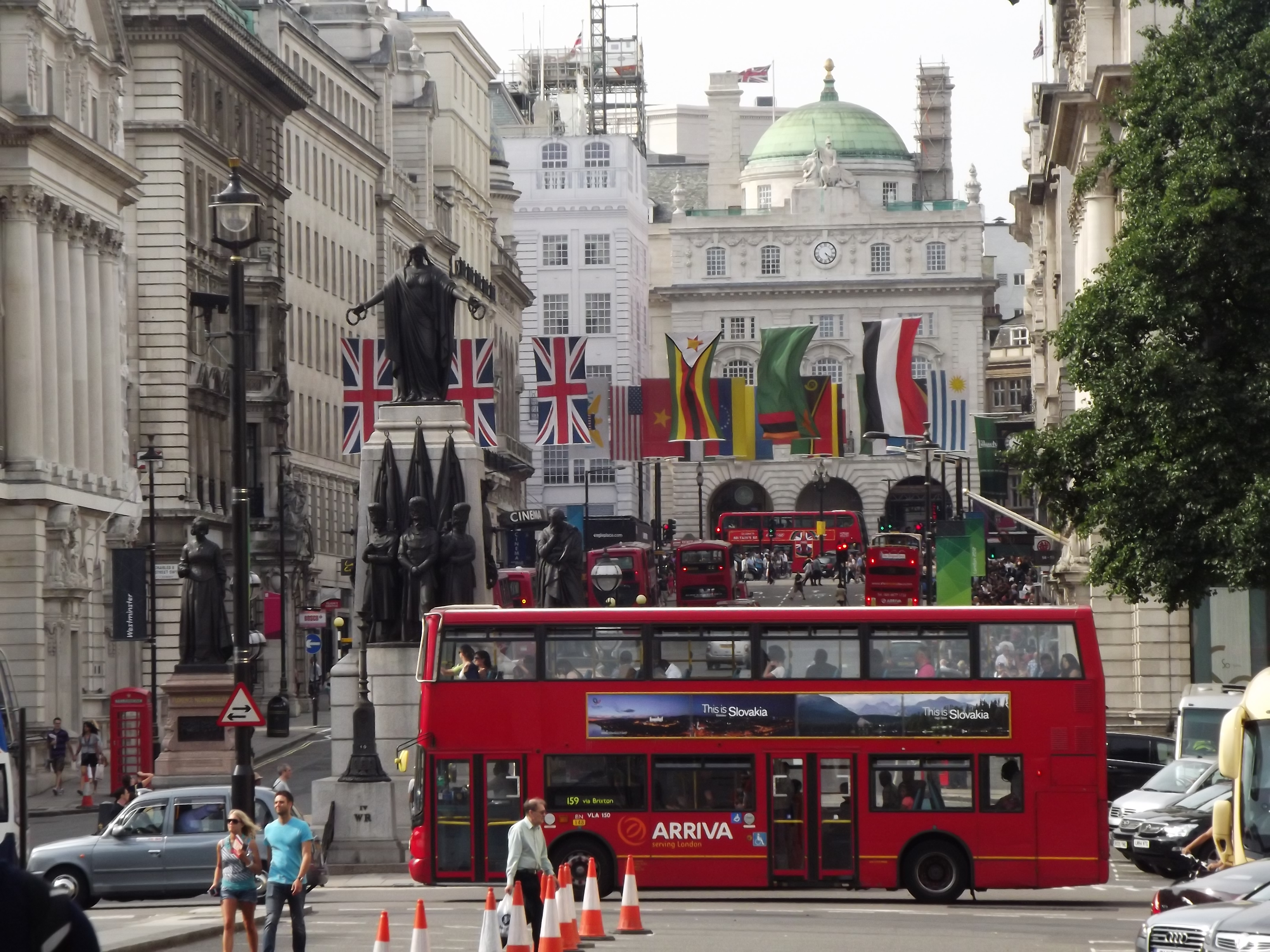 Lower Regent Street. Viewed from Carlton House Terrace. A double decker passes along Pall Mall while behind it are national flags representing countries at the end of the alphabet, and 3 UK flags to fill the final string. The flags were up in... more